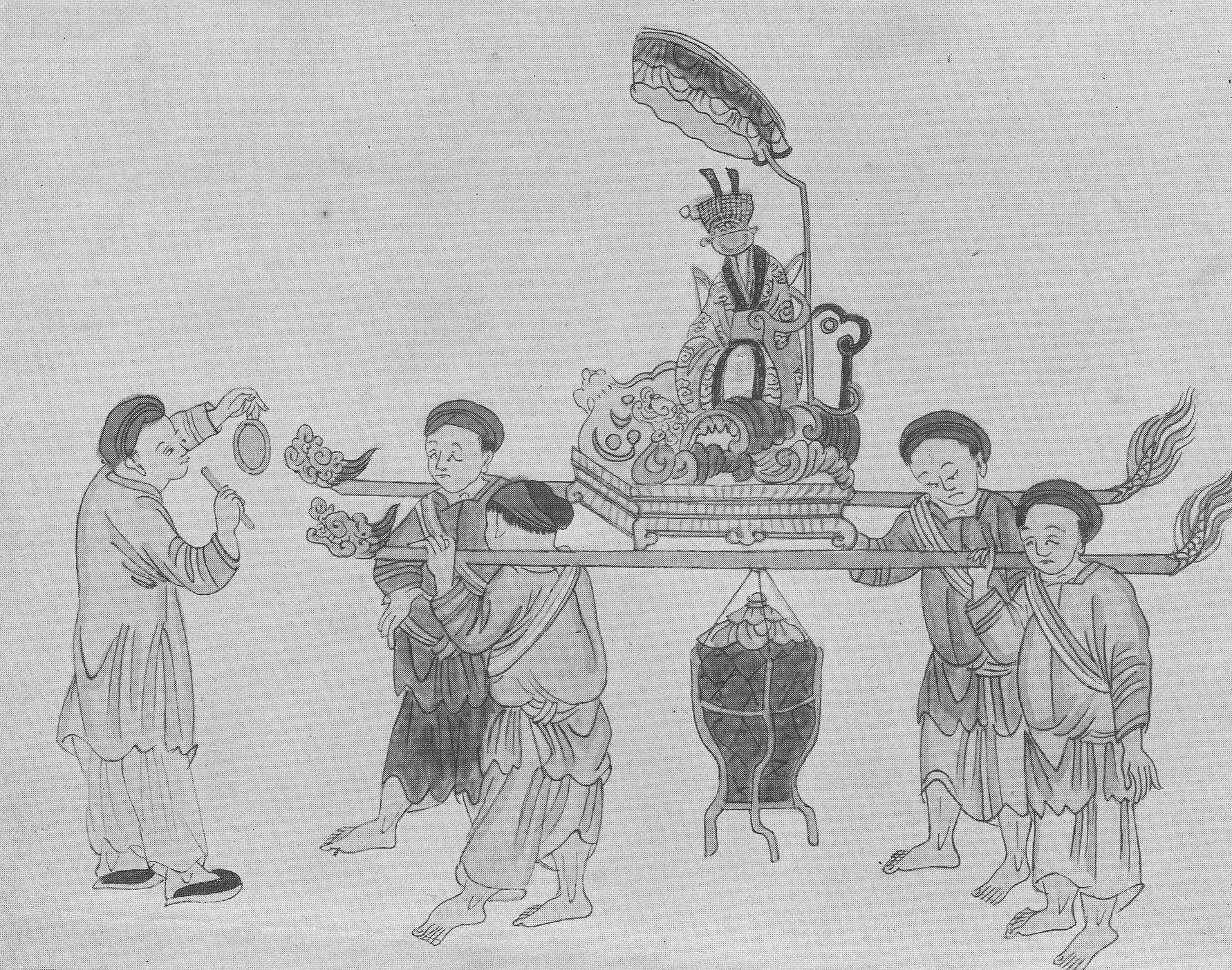 Ceremonial procession of village spirit's altar